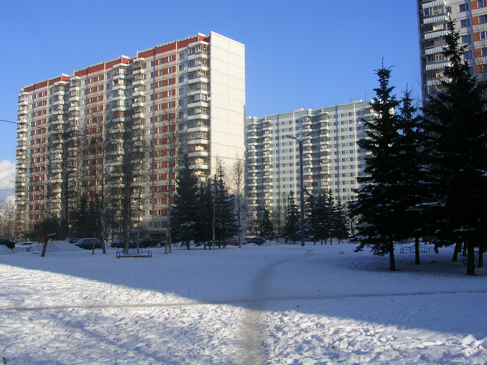 Moscow Olympic Village in winter.